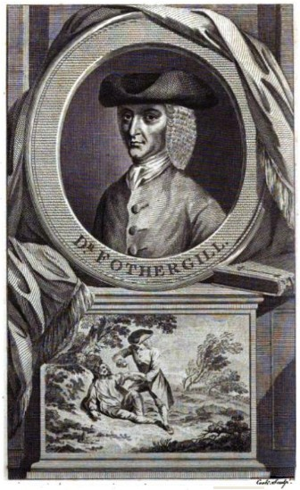 Picture of John Fothergill, the physician